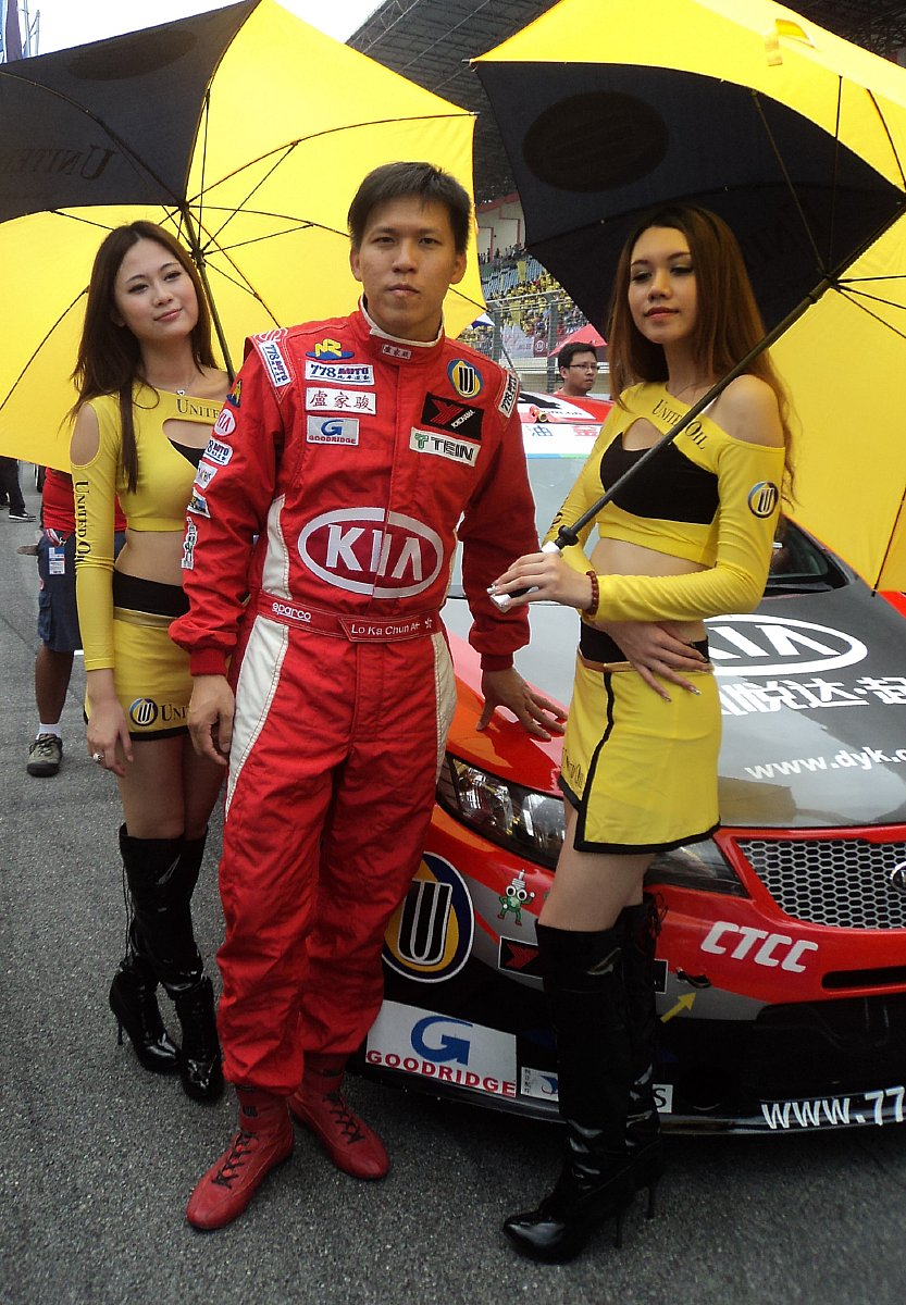 Lo Ka Chun at Zhuhai International Circuit in June 2012 for the China Touring Car Championship race.中文（香港）: 2012年6月，香港賽車手盧家駿在珠海國際賽車場準備參加中國房車錦標賽。